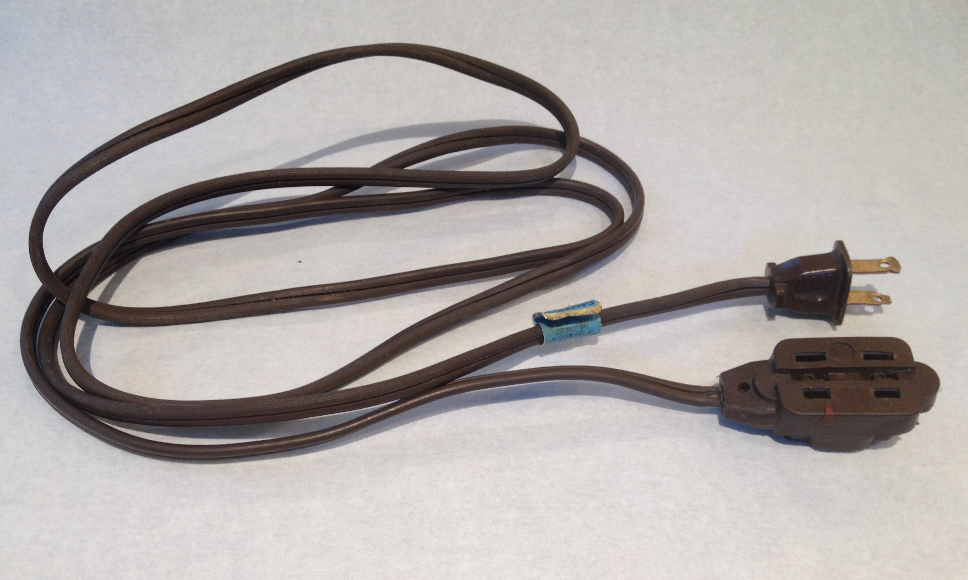 Typical U.S. Two-wire household extension cord with polarized NEMA-1 plug and receptacles.